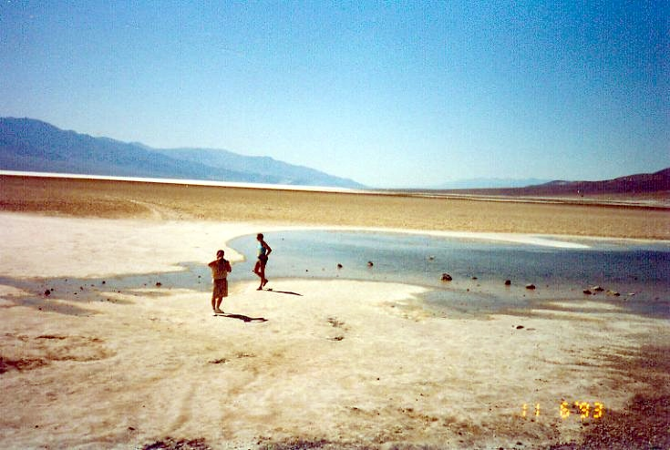 Salt lake near Bad Water in the Death Valley, USA